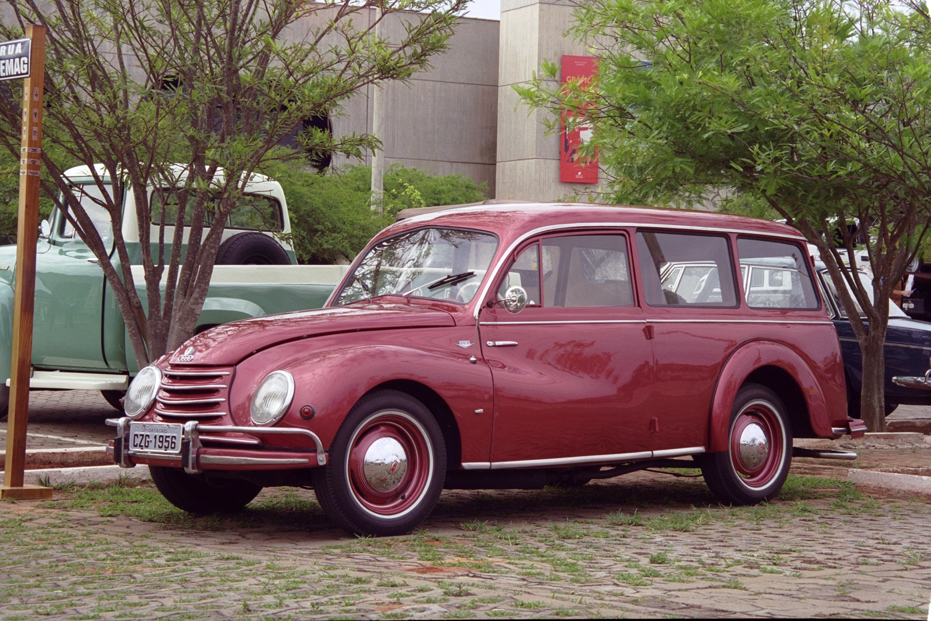 The F91 Universal was the first DKW model produced by Vemag in Brazil, in 1956.